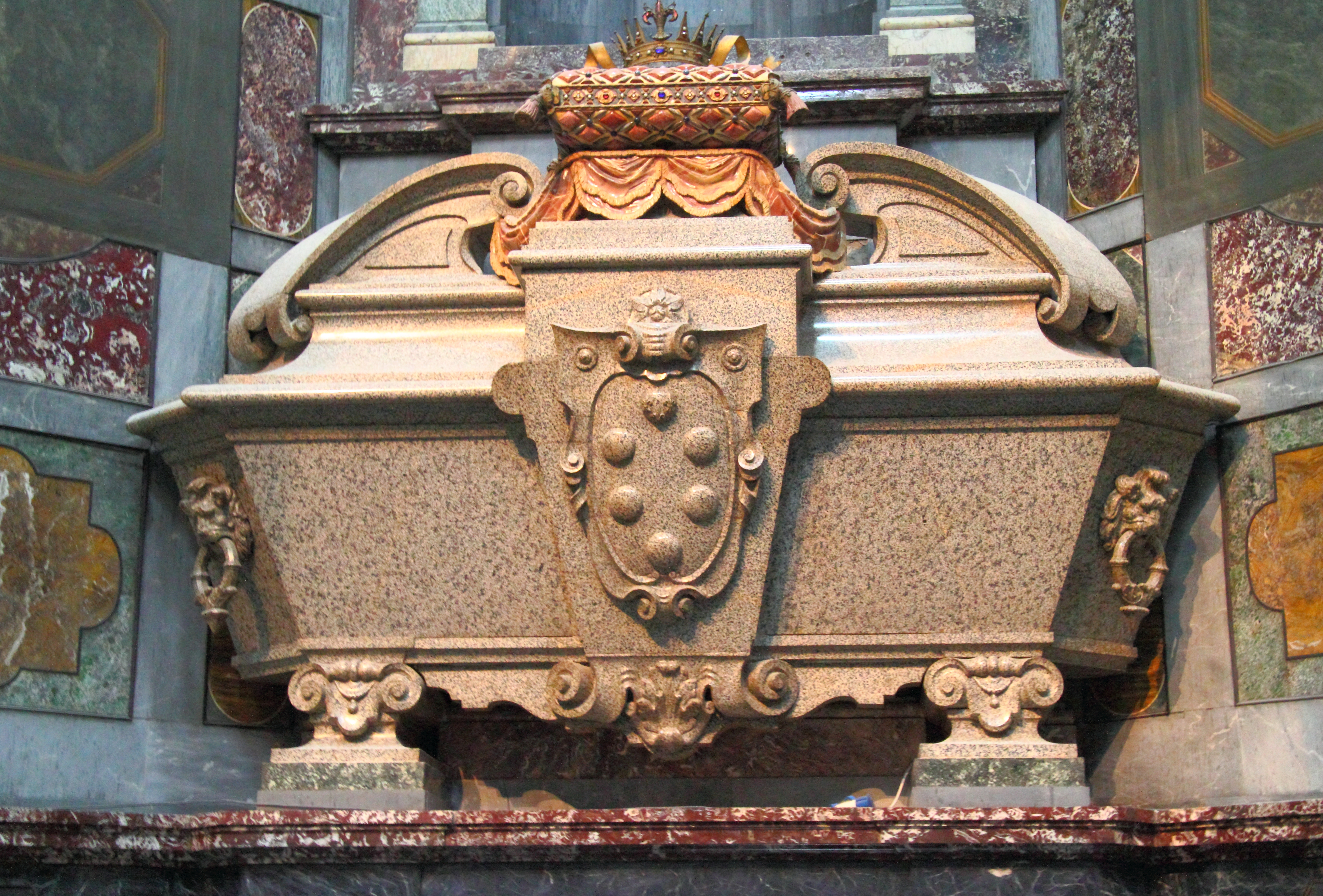 Florence, Italy: Capella dei Principi (Chapel of the Princes) at the church of San Lorenzo